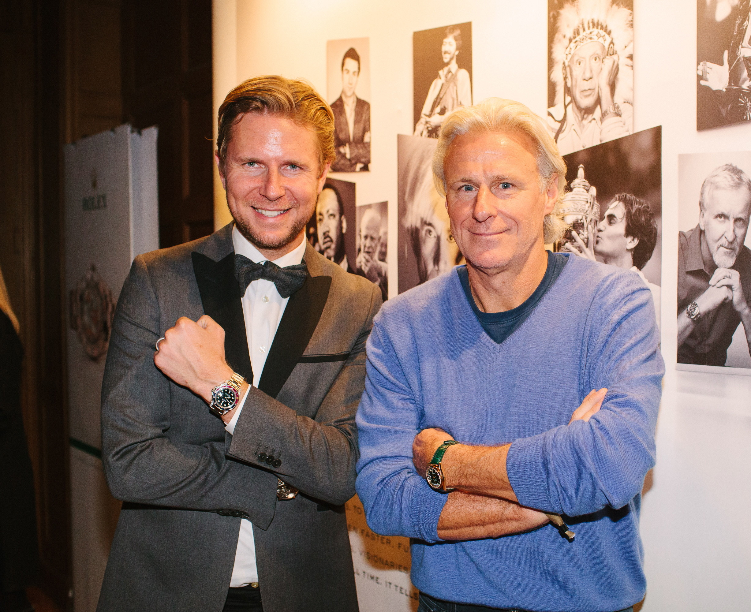 Swedish tennis legend Björn Borg.